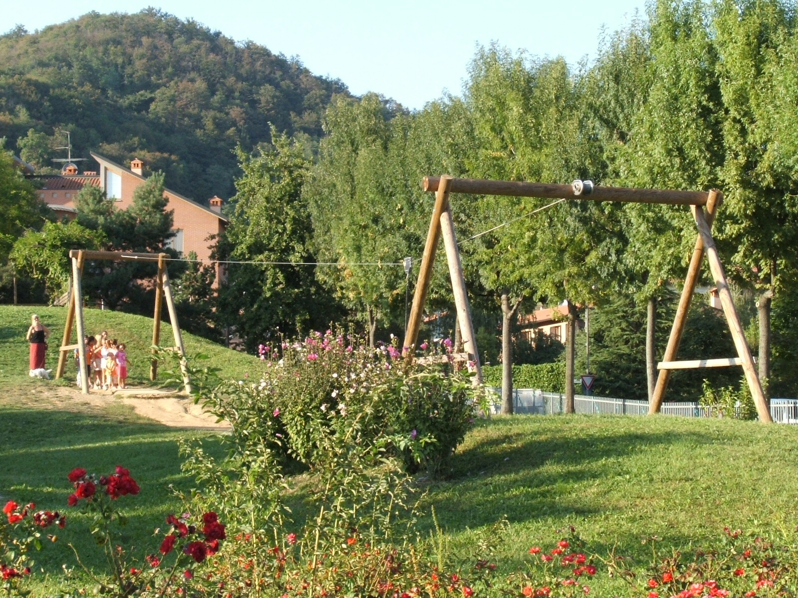 Ropeway in a playground - Redona park Bergamo Italy